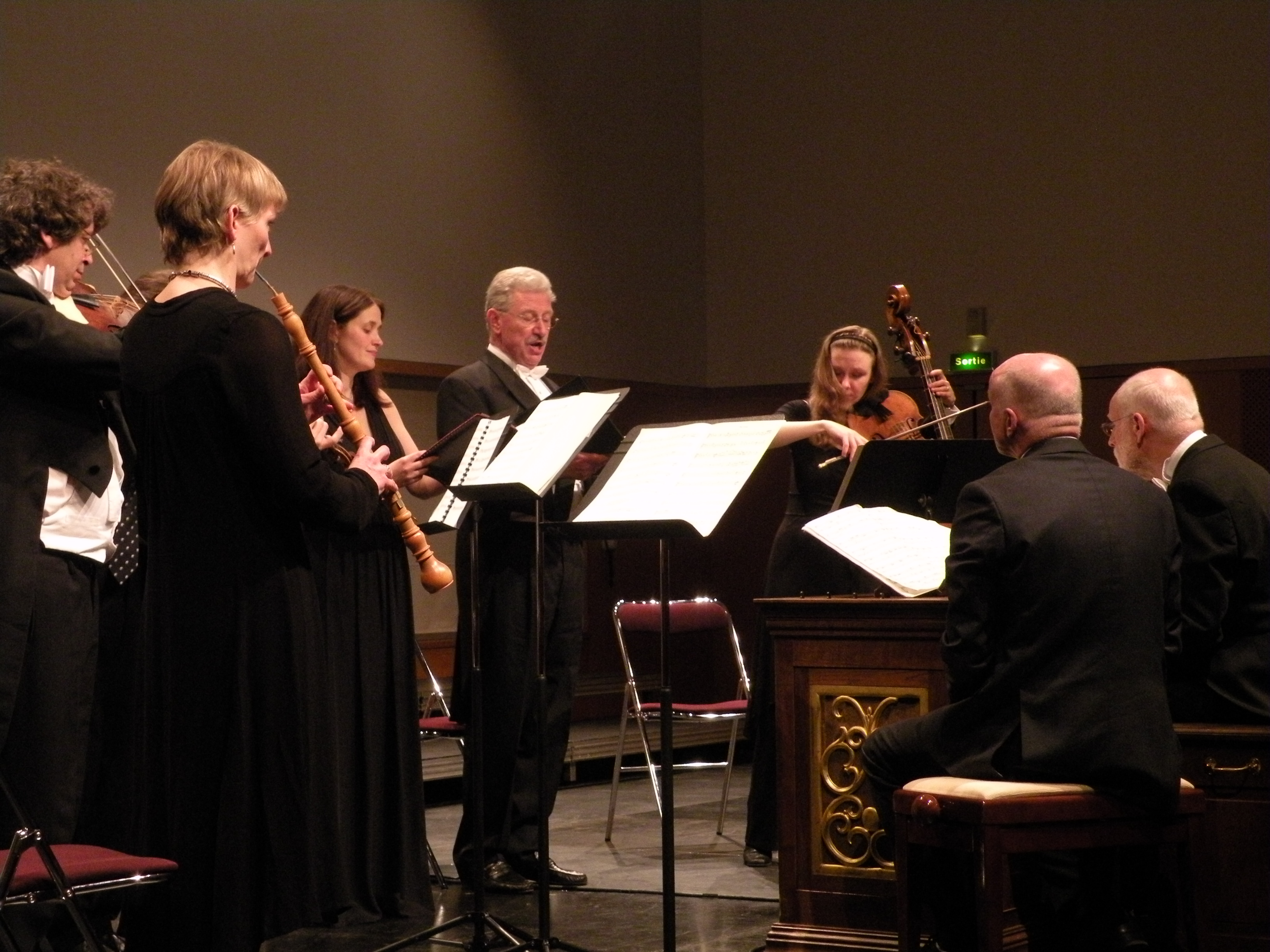 The Amsterdam Baroque Orchestra directed by Ton Koopman, on 29 january 2009, during La Folle Journée in Nantes.